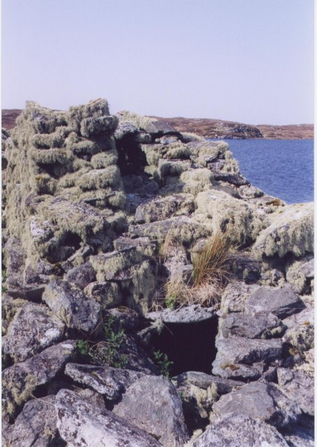 Mossy Dun on Loch Barabhat. The growth on these old stones shows just how clean the Atlantic air must be. You can see the double wall and a collapsed stair.